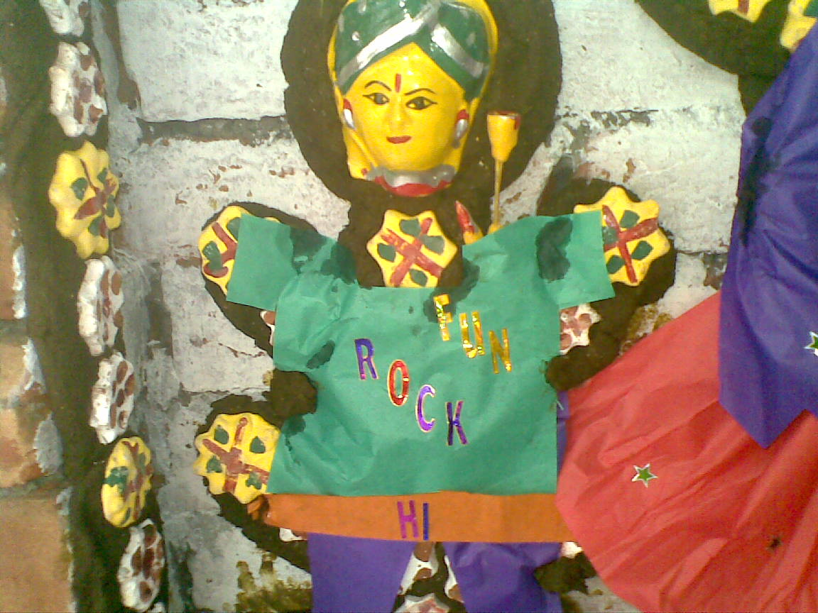 caring and loving bro